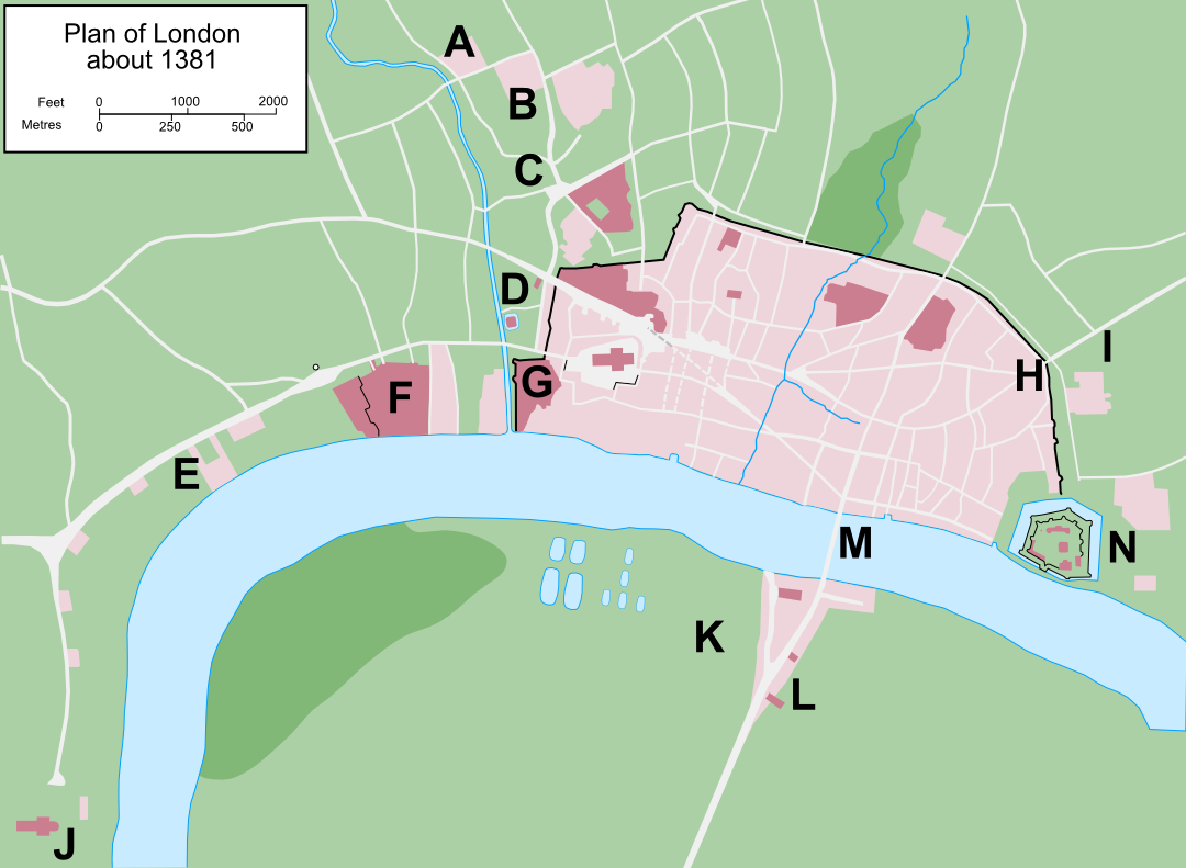 Map of the British city of London in around 1381. Based on a vectorised version of File:Plan of London in 1300.jpg by William R. Shepherd, a work in the public domain in the United States, also its home country, by virtue of being published in 1923 without copyright renewal. Additional detail after Marjorie B. Honeybourne's map of London under Richard II, 1940.